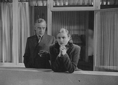 Anders Henrikson & Ingrid Bergman in the Swedish drama film A Woman's Face (1938)